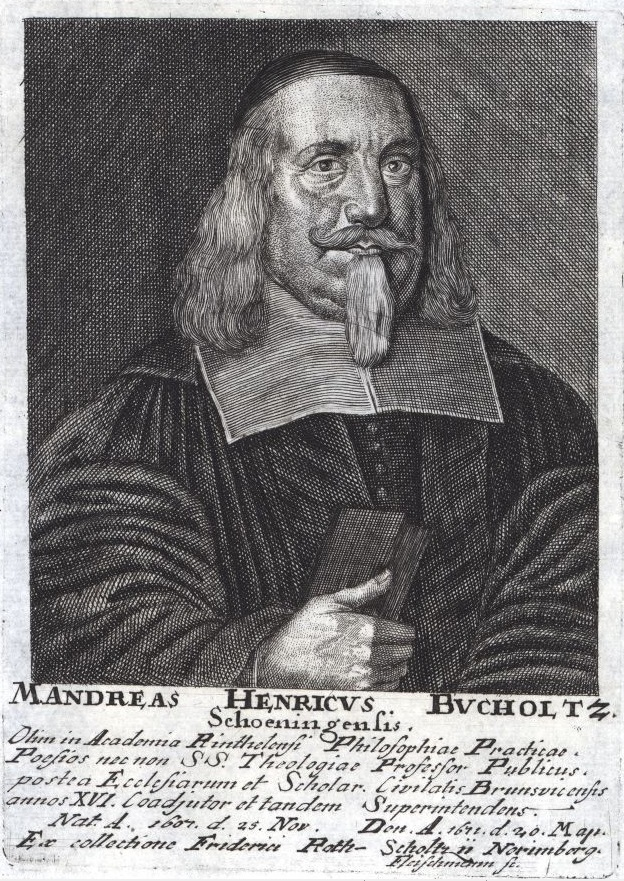 German theologian and Baroque writer Andreas Heinrich Bucholtz, engraving by August Christian Fleischmann (1704-1732)